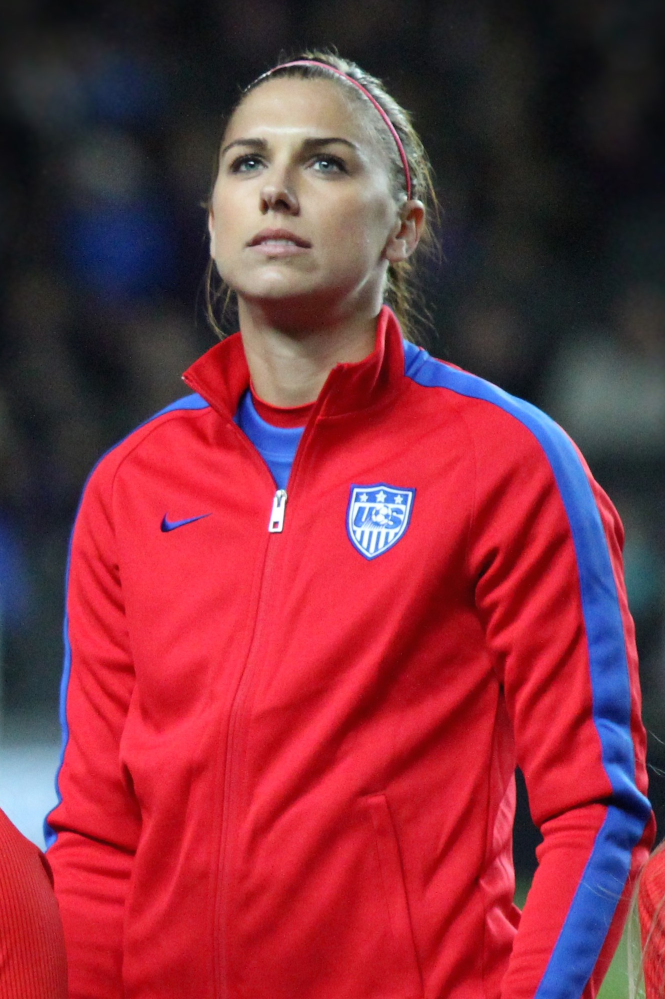 Alex Morgan of USA Women's before the international friendly against England.